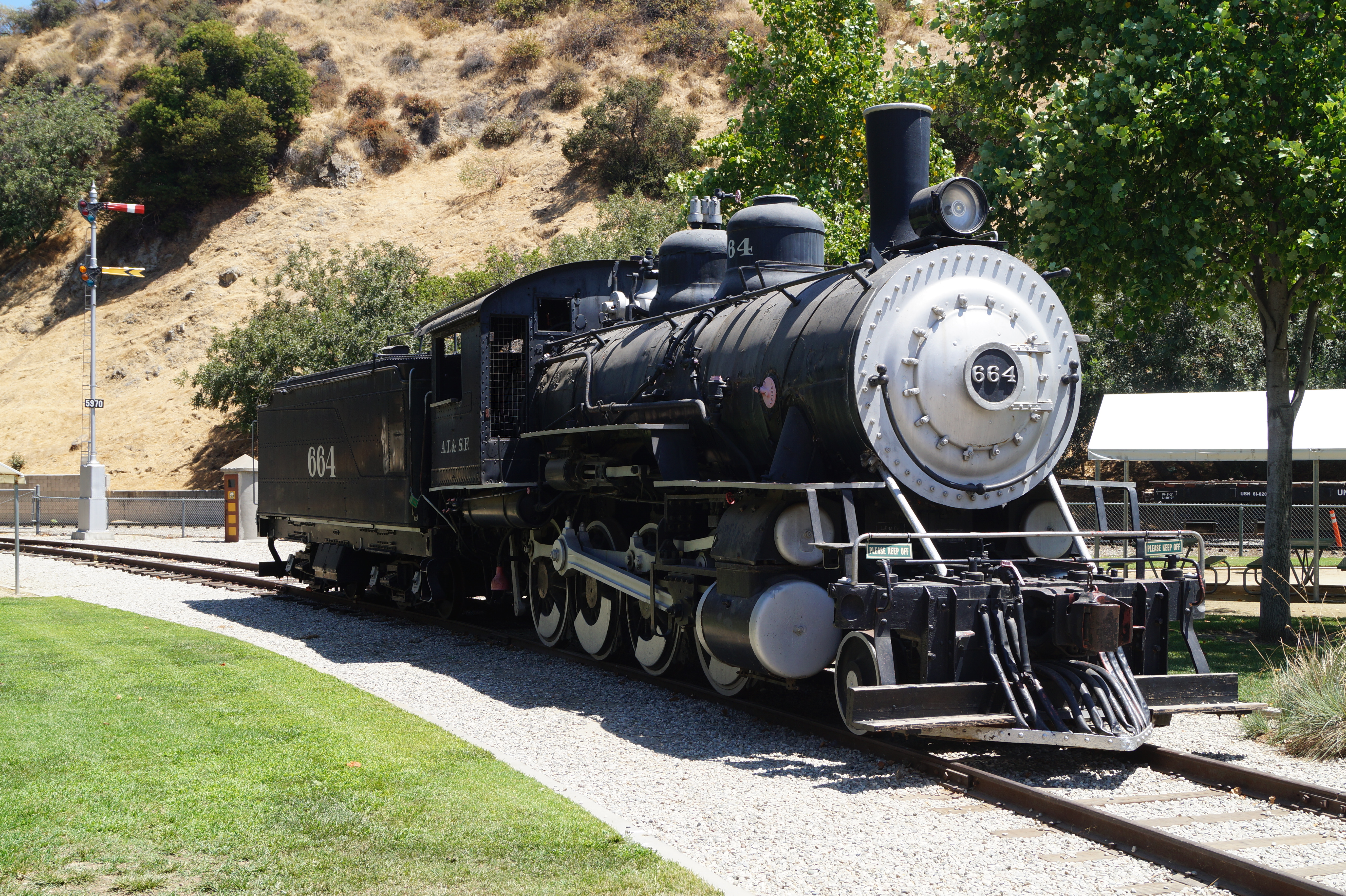 Travel Town Museum is a transport museum dedicated in the northwest corner of Los Angeles, California's Griffith Park. The history of railroad transportation in the western United States from 1880 to the 1930s is the primary focus of the museum's collection, with an emphasis on railroading in Southern California and the Los Angeles area.